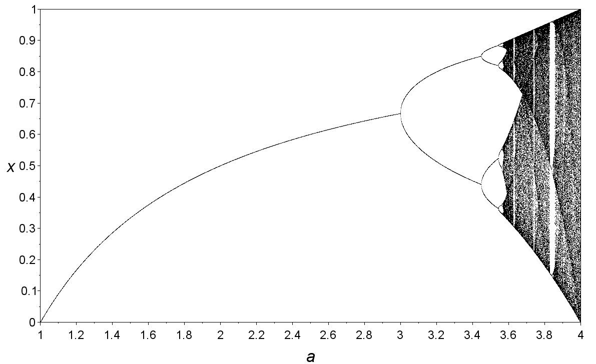 Logistic map bifurcation diagram. The parameter a is ranging from 1 to 4.